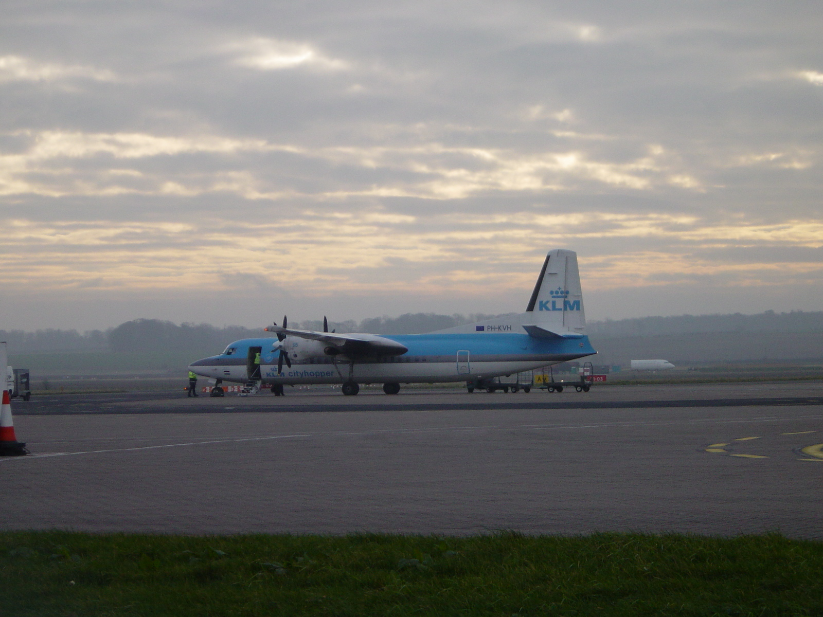 Fokker 50 on the Southern Apron